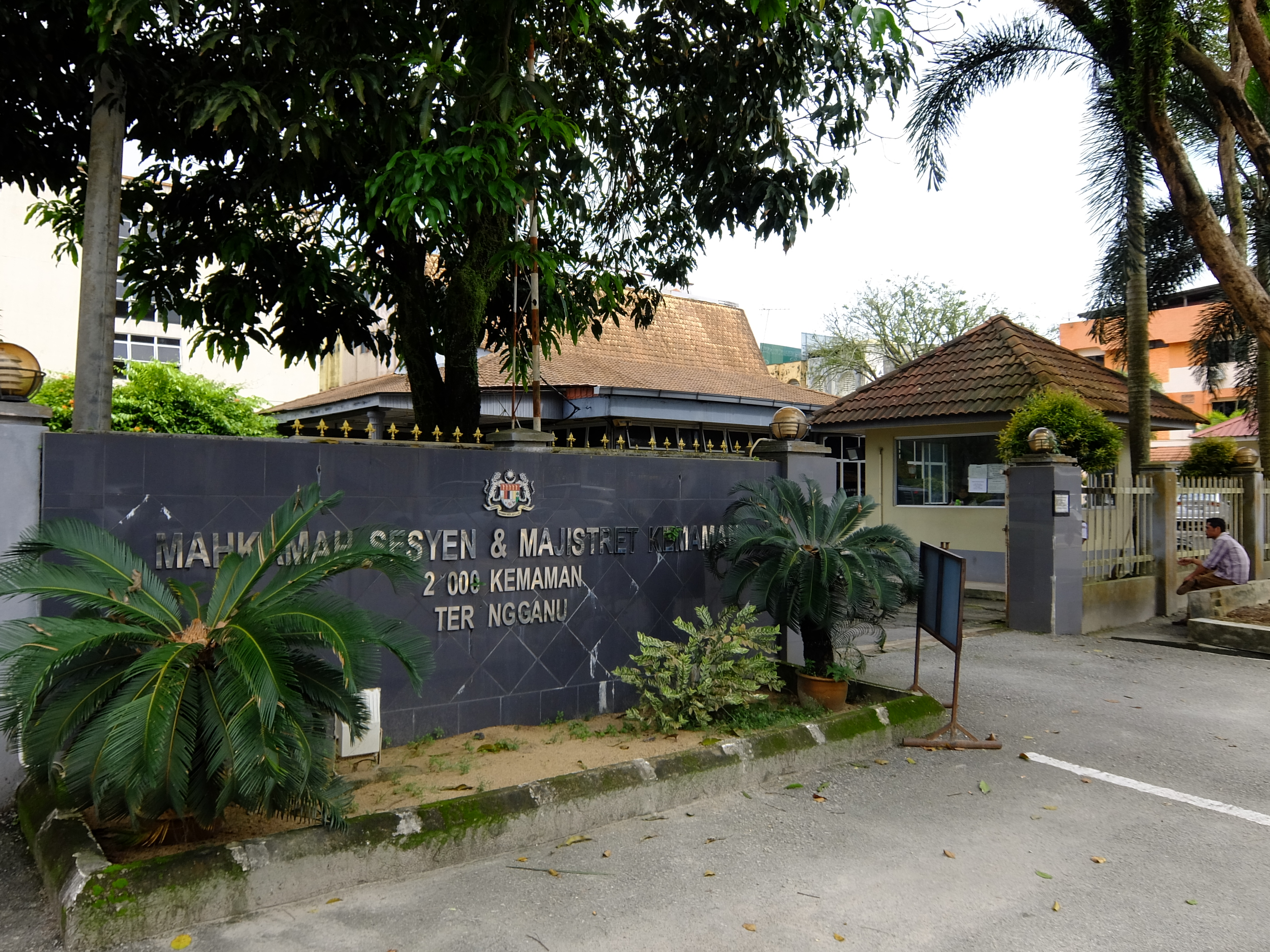 Kemaman Sessions and Magistrates' Court, Chukai, Kemaman, Terengganu, Malaysia